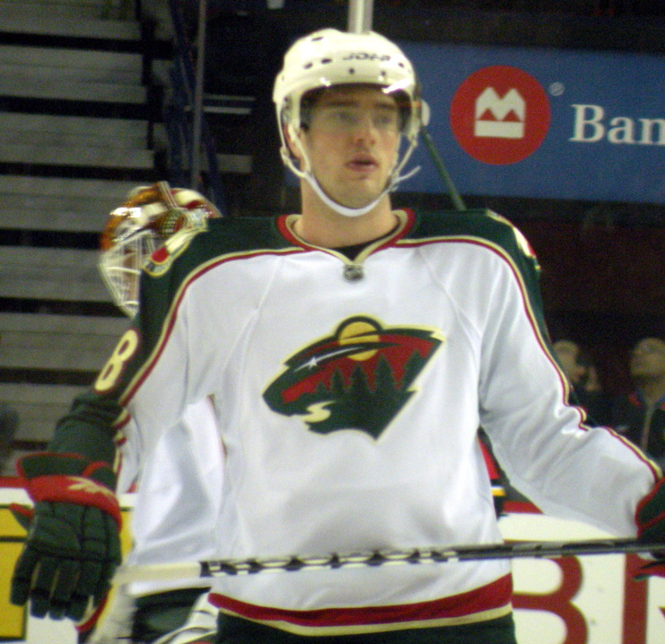 Minnesota Wild forward Peter Olvecky during warm-up prior to a National Hockey League game against the Calgary Flames in Calgary.